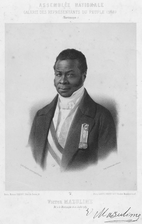 Victor Mazuline, Deputy for Martinique in the French National Assembly between 1848 and 1849